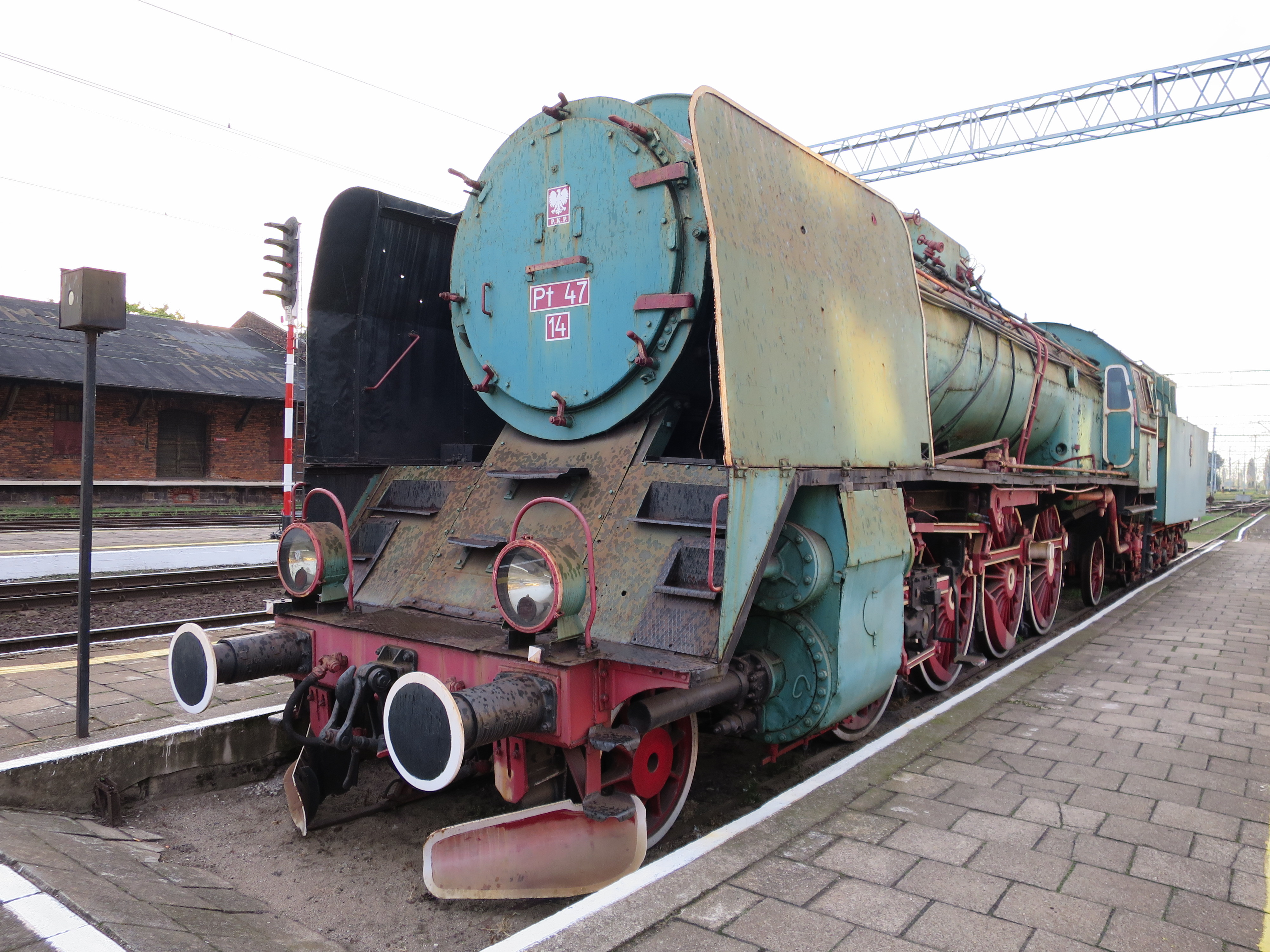 Stargard Szczeciński This photo was taken during Railway Wikiexpedition 2015 set up by Wikimedia Polska Association in cooperation with Fundacja Grupy PKP.You can see all photographs in category Wikiekspedycja kolejowa 2015.